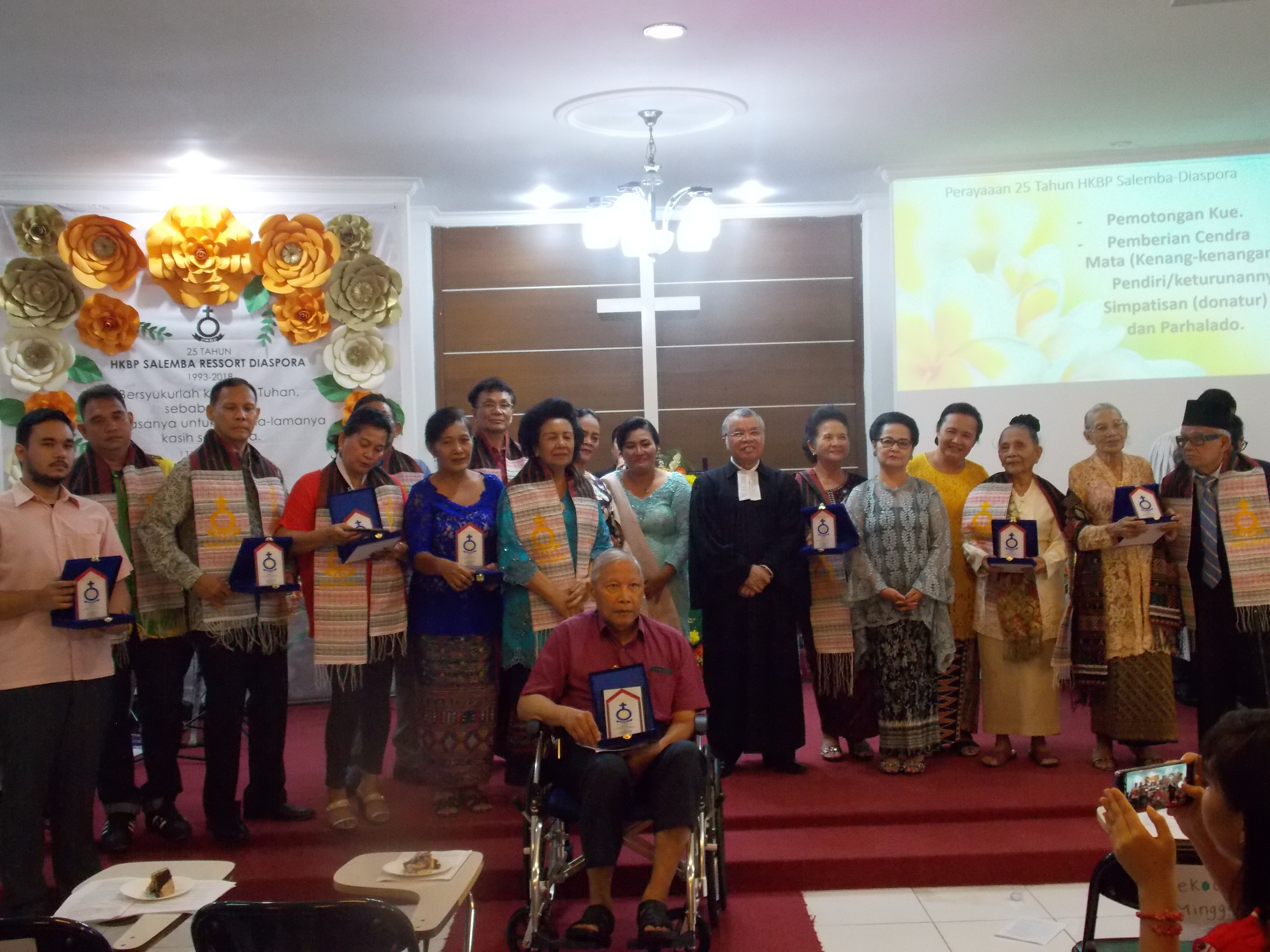 25th Anniversary of HKBP Diaspora. HKBP Diaspora is one of the church that form through the breakup of churches during the HKBP Crisis.